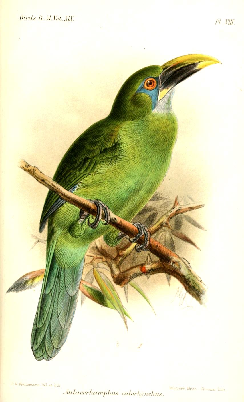 Aulacorhamphus calorhynchus = Aulacorhynchus calorhynchus, Yellow-billed Toucanet